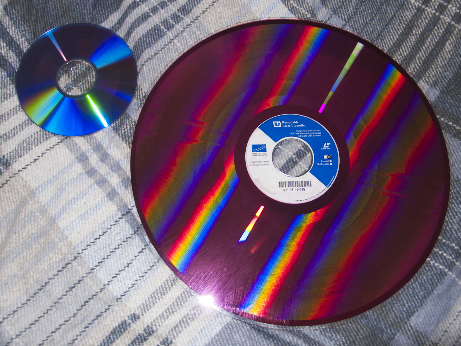 Recordable Laser Videodisc manufactured by Optical Disc Corporation, alongside a DVD-R for size comparison.